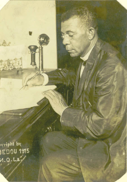 Booker T. Washington at work. Photo print showing him seated at desk, 1915